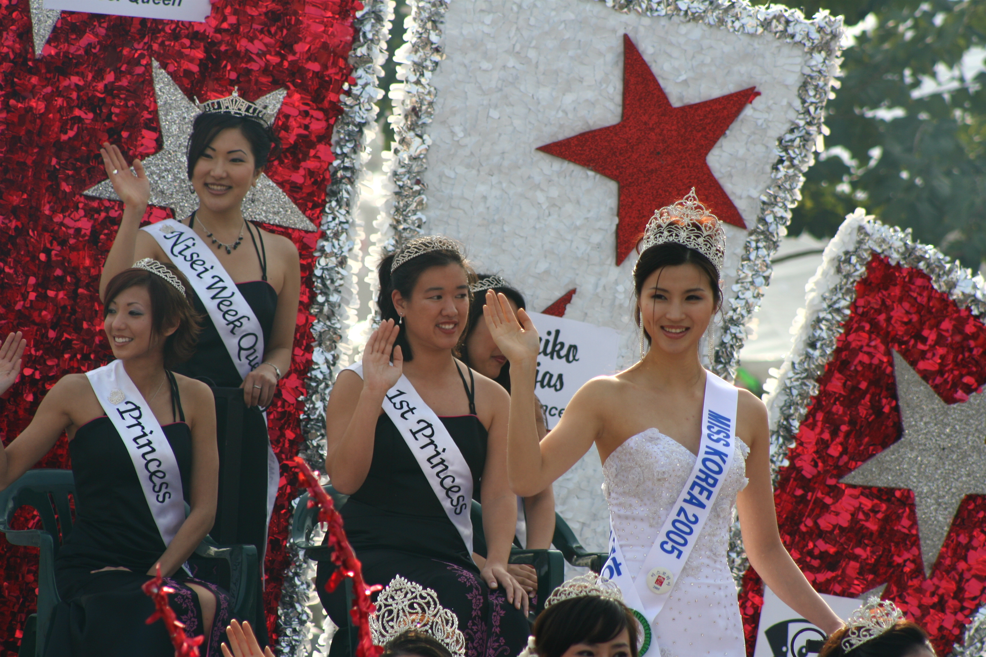 107th Annual golden dragon parade. Miss Korea 2005 Mi Yoo Hye-Mi.